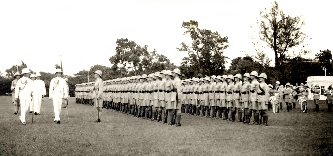 1933. India . 1st Bn Royal Norfolk Regiment on parade in Dacca, Bengal, with Band and Drums ( in rear ), being inspected by Sir John Anderson, the Governor General.